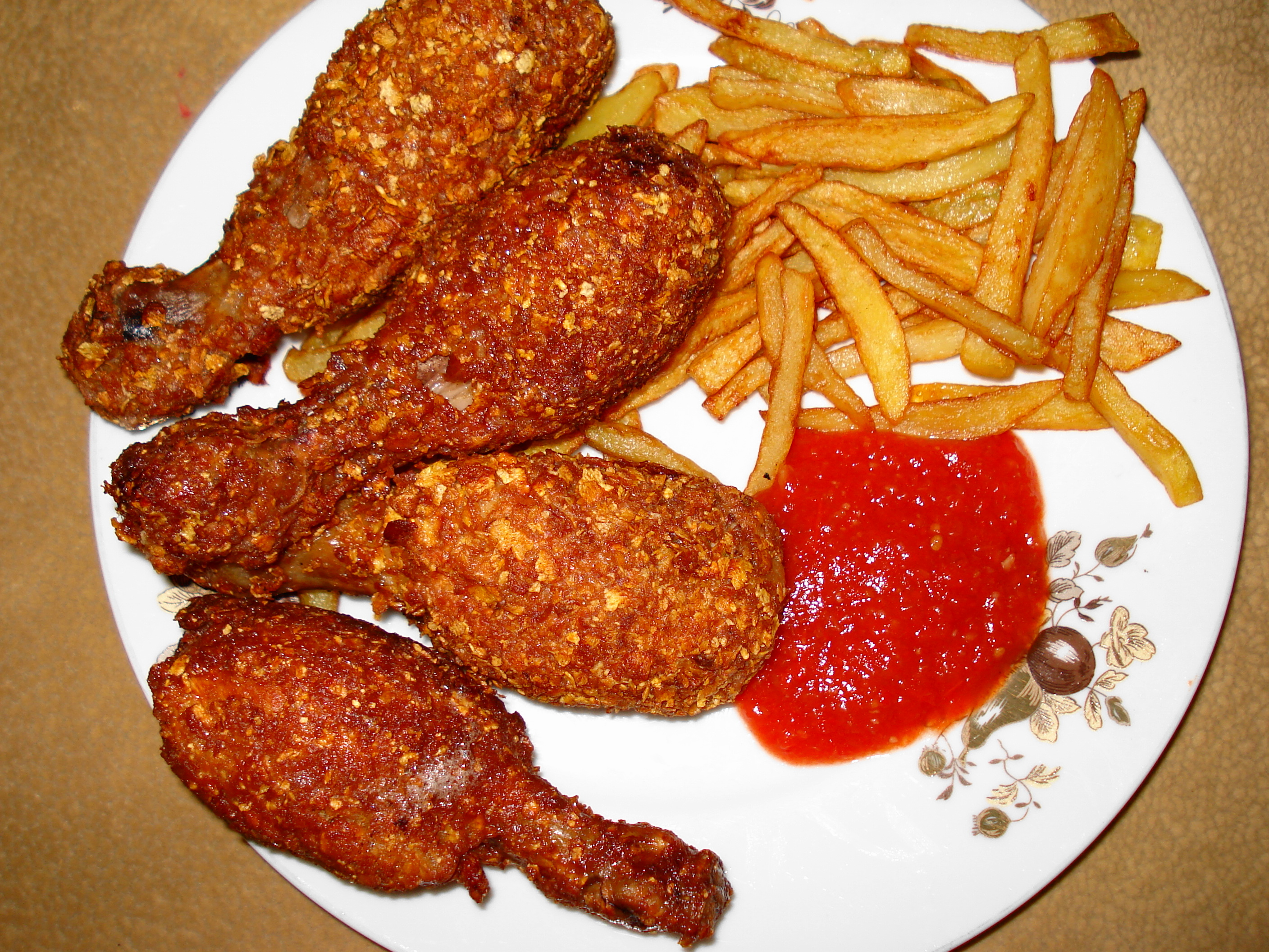 Chicken Broast is very popular dish in Pakistan served with Ketchup and finger chips